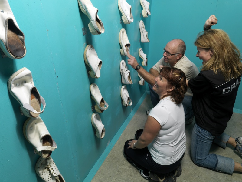 Boda Borg in Visby which is located in the old Follingbo Hospital.